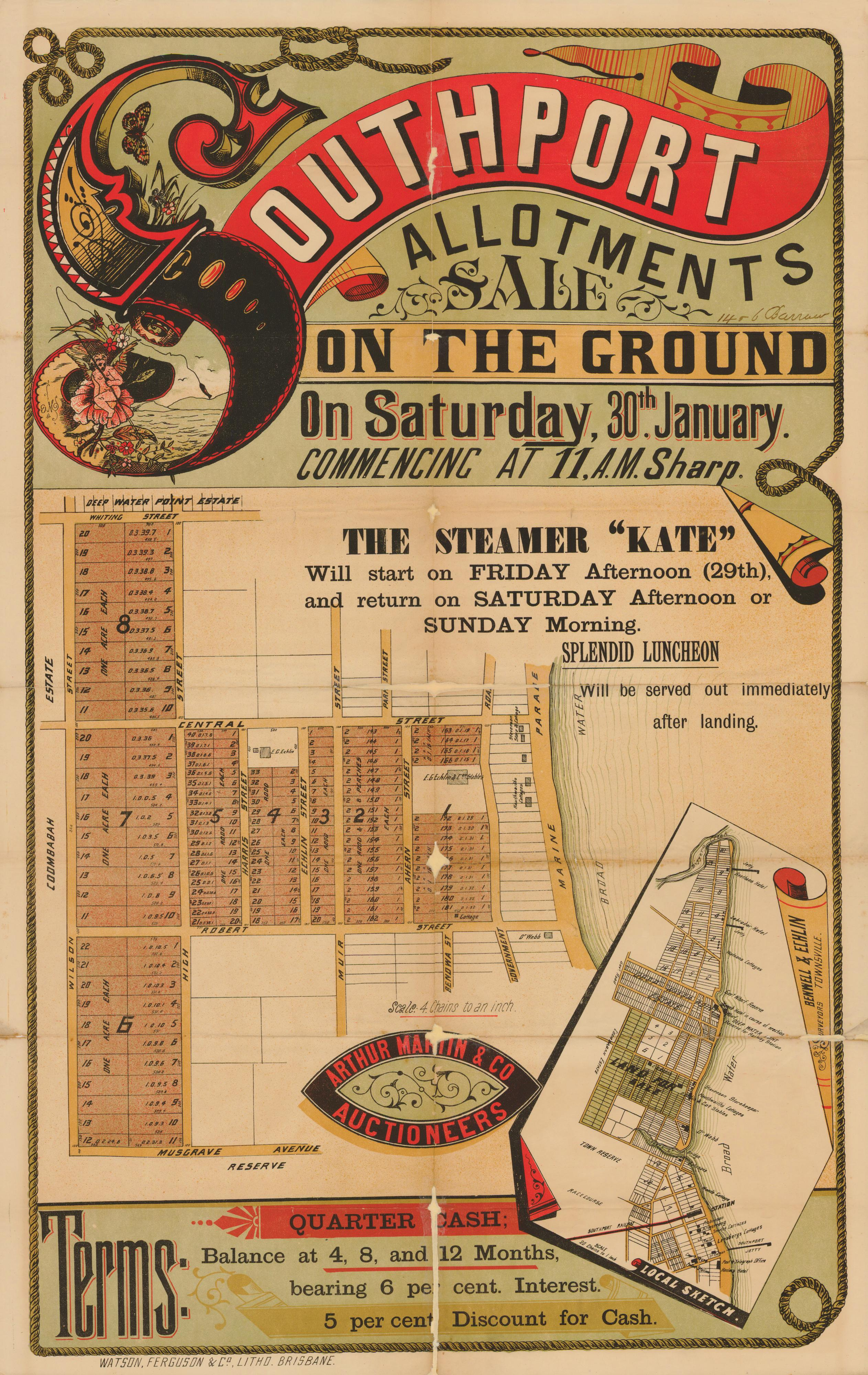 Creator: Benwell & Echlin.; Watson, Ferguson & Co. Location: Southport, Gold Coast, Queensland. Description: Surveyors: Benwell & Echlin, Townsville. Auctioneers: Arthur Martin & Co. Published by Watson, Ferguson & Co., Lithographers (Brisbane). 89 x 57 cm. Digitised as part of the 'Henzell and Cameron Estate Maps Project' 2005. "The Steamer 'Kate' will start on Friday afternoon (29th) and return on Saturday afternoon or Sunday morning. Splendid luncheon will be served out immediately after landing." Includes a local sketch. Read more about SLQ's map collections: View this image at the State Library of Queensland: Information about State Library of Queensland’s collection: You are free to use this image without permission. Please attribute State Library of Queensland.